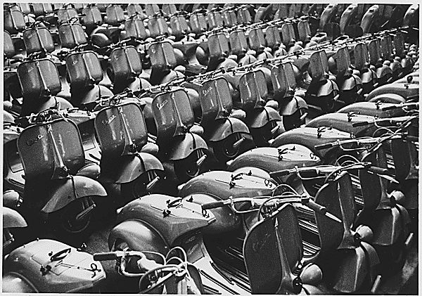 Italy. With the help of Marshall Plan funds, a new product rolled out of the factory, the Vespa Piaggio plant at Pontedera near Pisa, Italy , ca. 1948 - ca. 1955